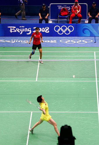 Badminton - Lu Lan vs. Yulianti at Beijing Olympics 2008